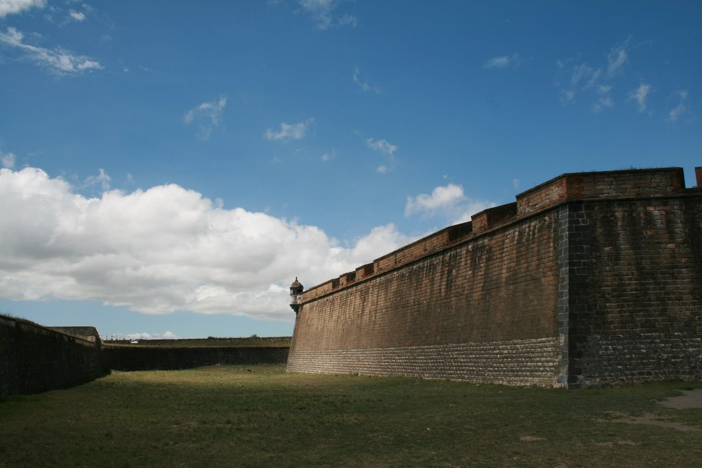 The Fort of San Carlos in Perote, Veracruz, Mexico.